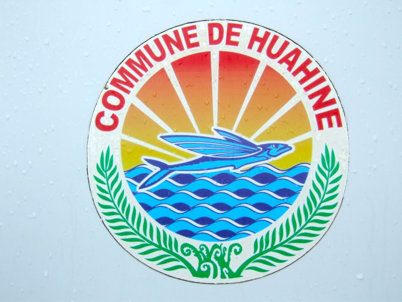 Seal of the Commune of Huahine, French Polynesia, as seen on the side of a police vehicle in May 2014